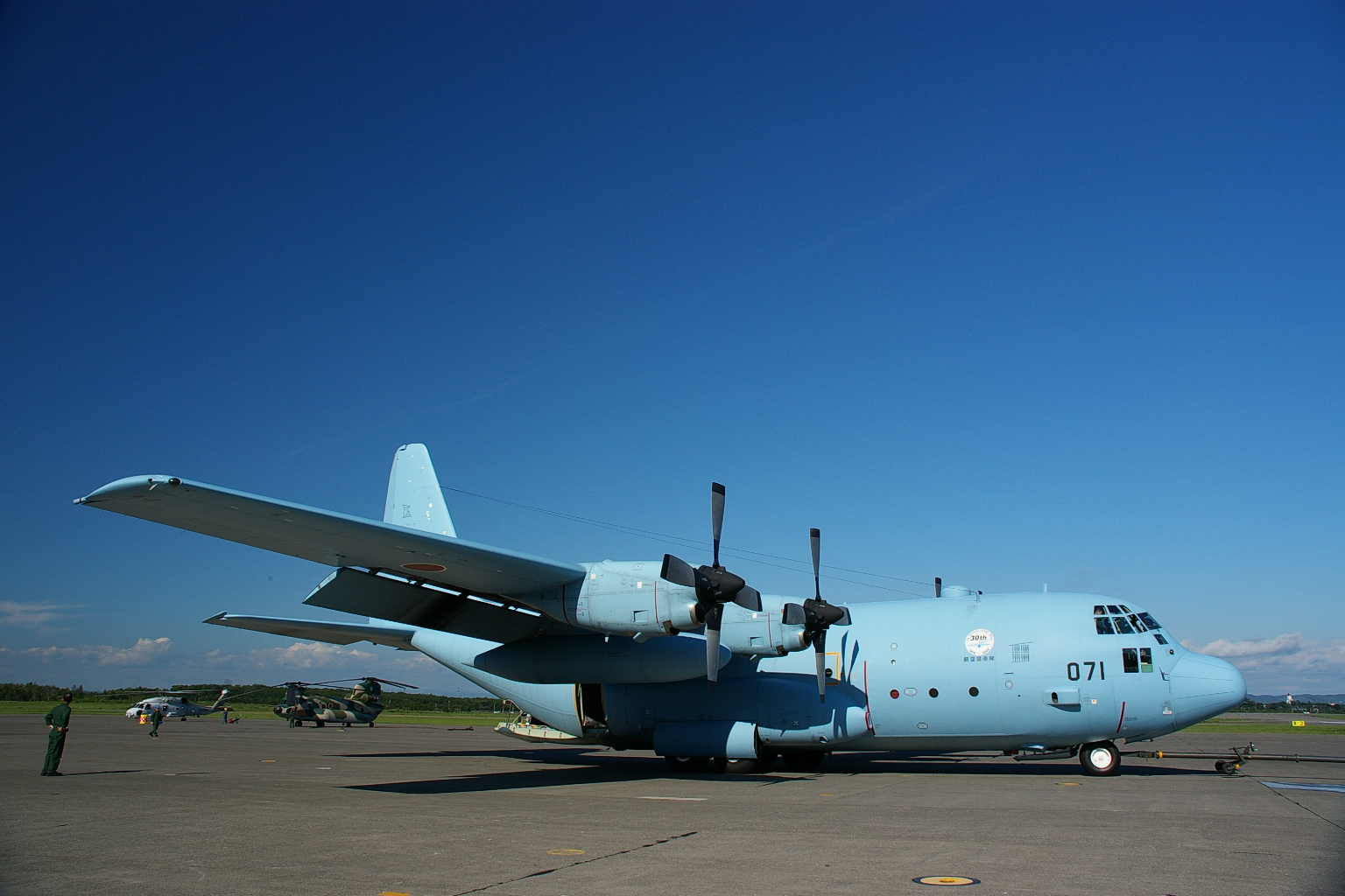 Japan Air Self Defense Force, C-130H transport (the Iraq dispatch specification)